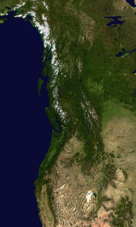 Satellite image of the Pacific Northwest region of North America